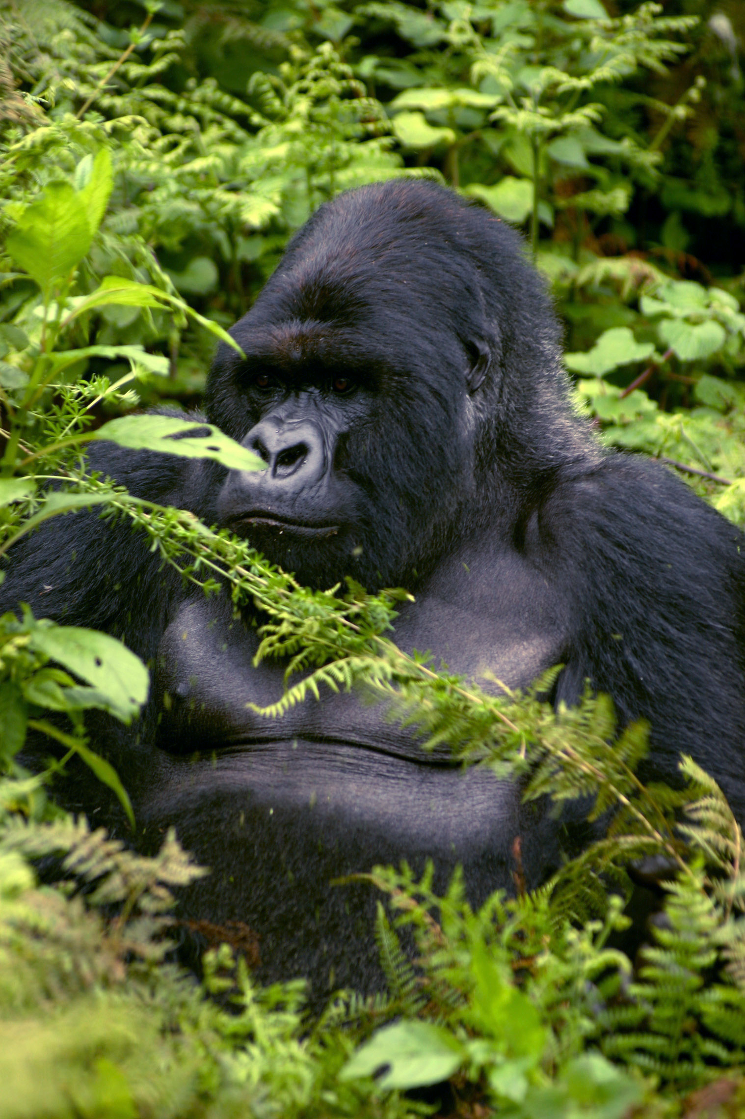 Mountain Gorilla Gorilla beringei beringei, Suza family, Volcanoes National Park, Rwanda